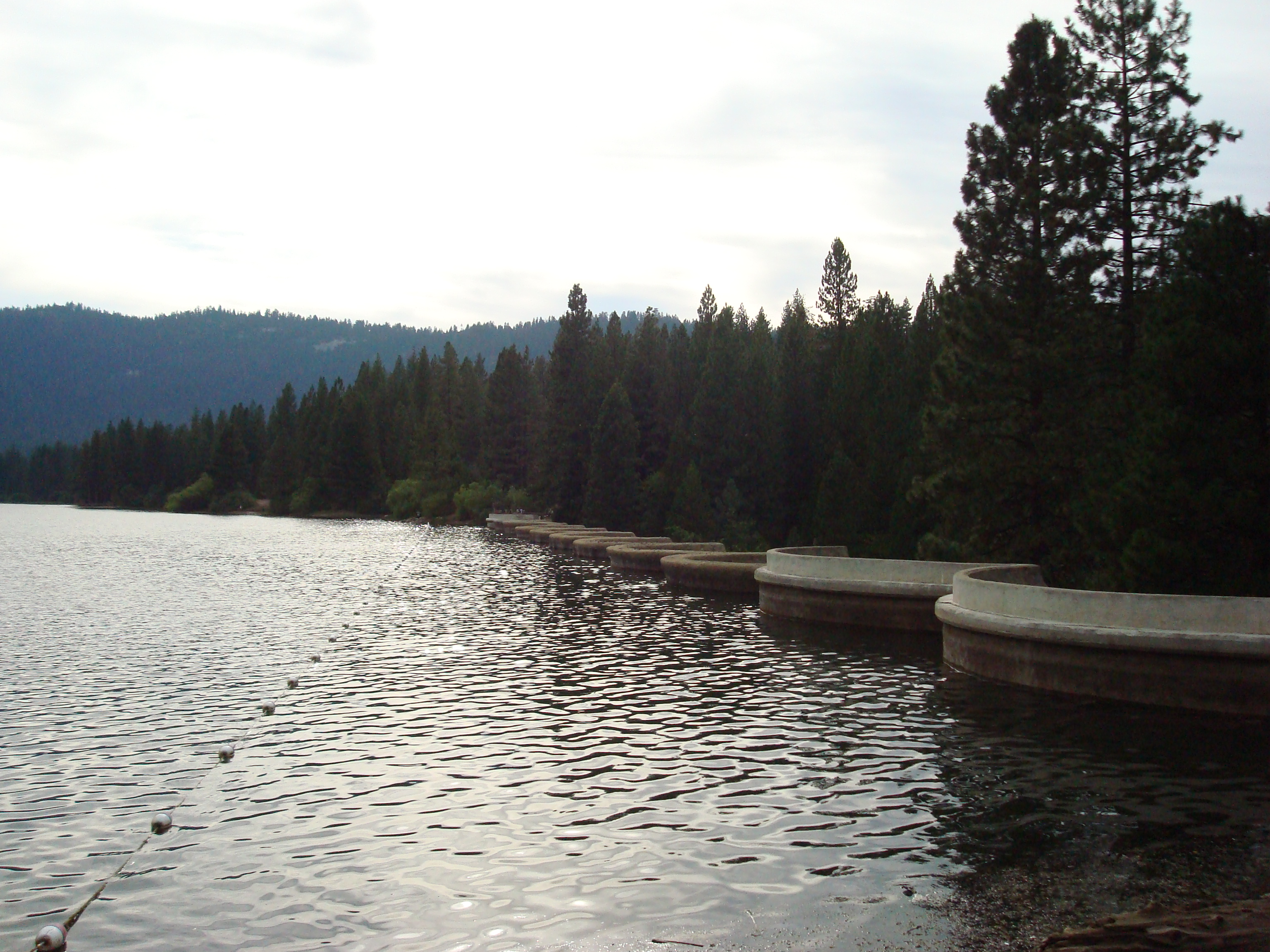 View of the dam creating Hume Lake — Fresno County, Sequoia National Forest, California.